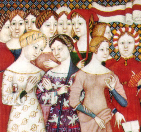 Detail of Illustration form an Italian breviary showing women's figured silk gowns and a saint. Bilbliothèque Nationale, Paris, ms lat. 757 f. 380v